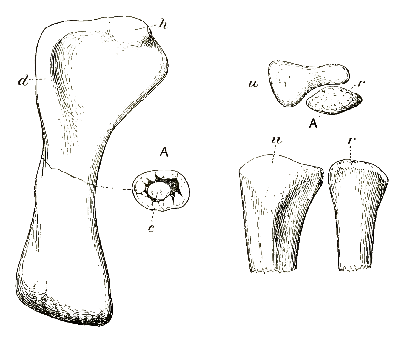 Text-fig. 47.—Cetiosaurus leedsi.—Right humerus, anterior aspect, and (A) transverse section showing internal cavity. c, internal core of rock representing a cavity; d., deltoid crest; h., thickened head. About 1/13 nat. size. Text-fig. 48.—Cetiosaurus leedsi.—Upper portion of right radius (r.) and ulna (u.), anterior aspect; and (A) upper articular end of the same. About 1/13 nat. size.